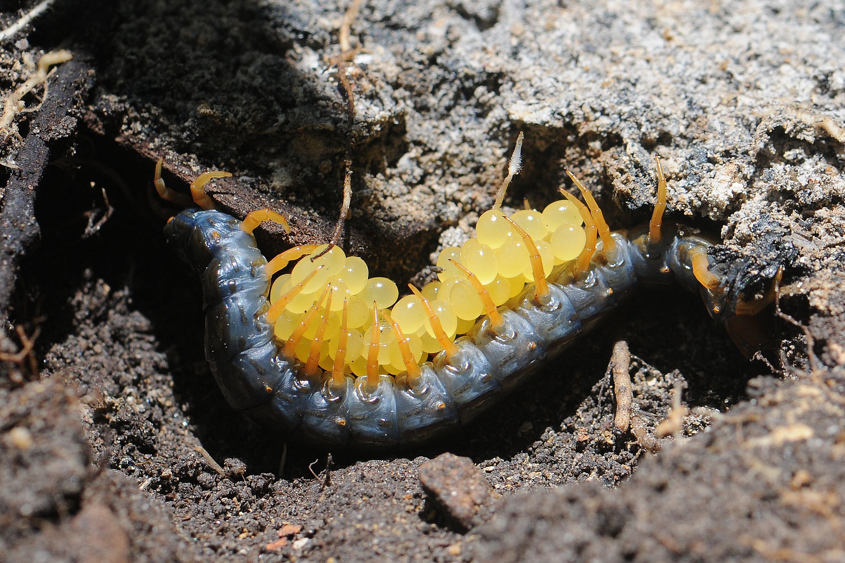 Cormocephalus aurantipes. Scotland Island, Sydney - Australia